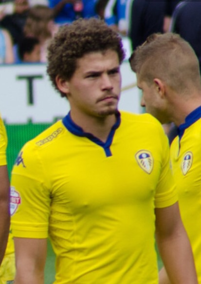 English footballer Kalvin Phillips